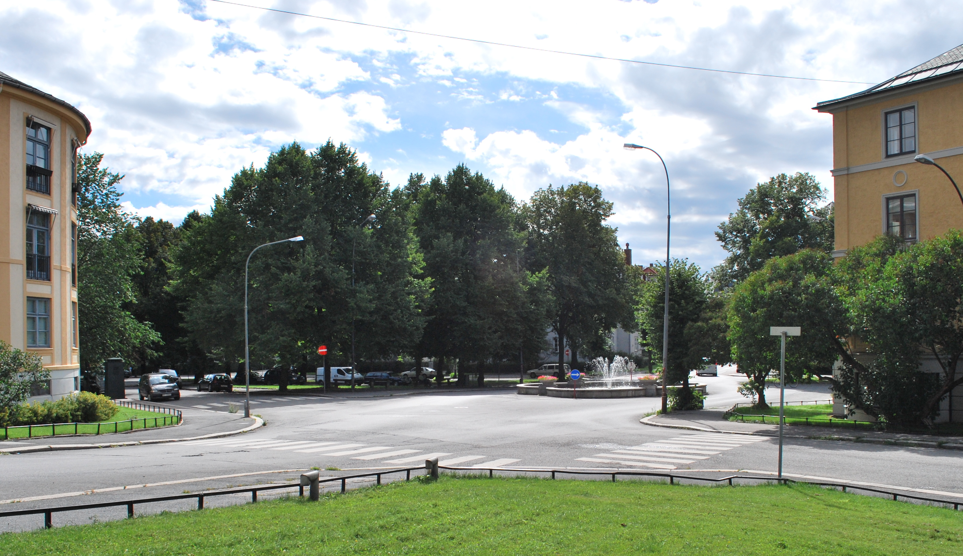 Arno Bergs square (Nrw. plass), Briskeby, Oslo, seen fram Schives street